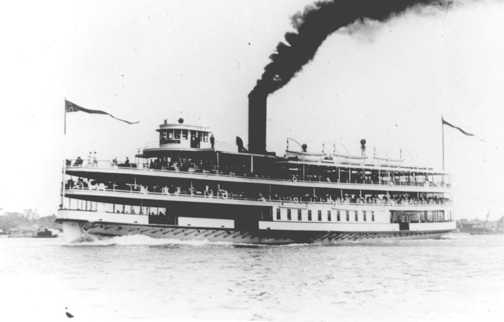 The SS Columbia — an excursion steamboat that operated primarily between Detroit and Bois Blanc Island—Boblo Island Amusement Park. The vessel is a U.S. National Historic Landmark. This image was included as part of the Columbia's nomination to the National Register of Historic Places.